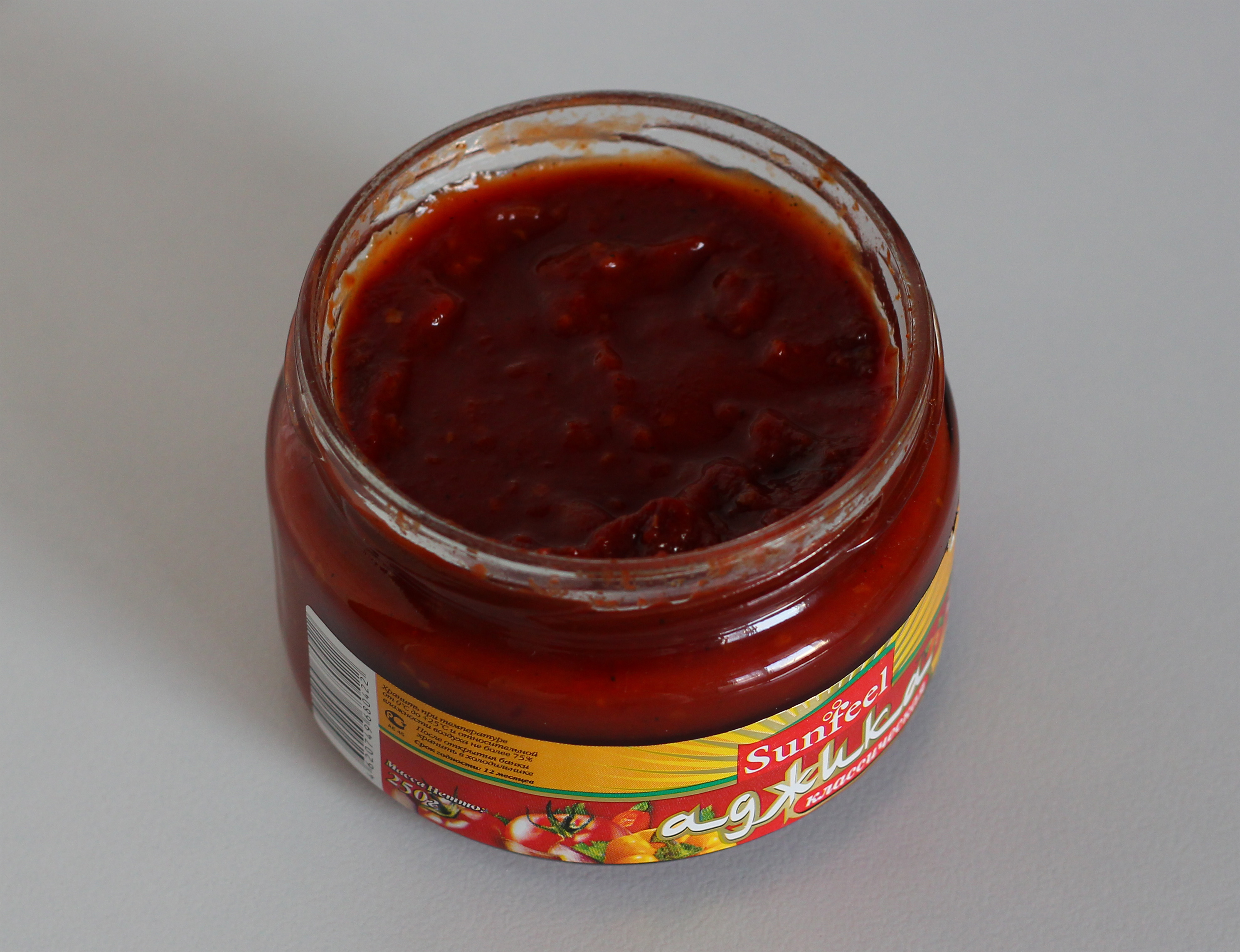 Adjika is a spicy sauce from Georgia; here filled in a glass jar by a Russian food producer.